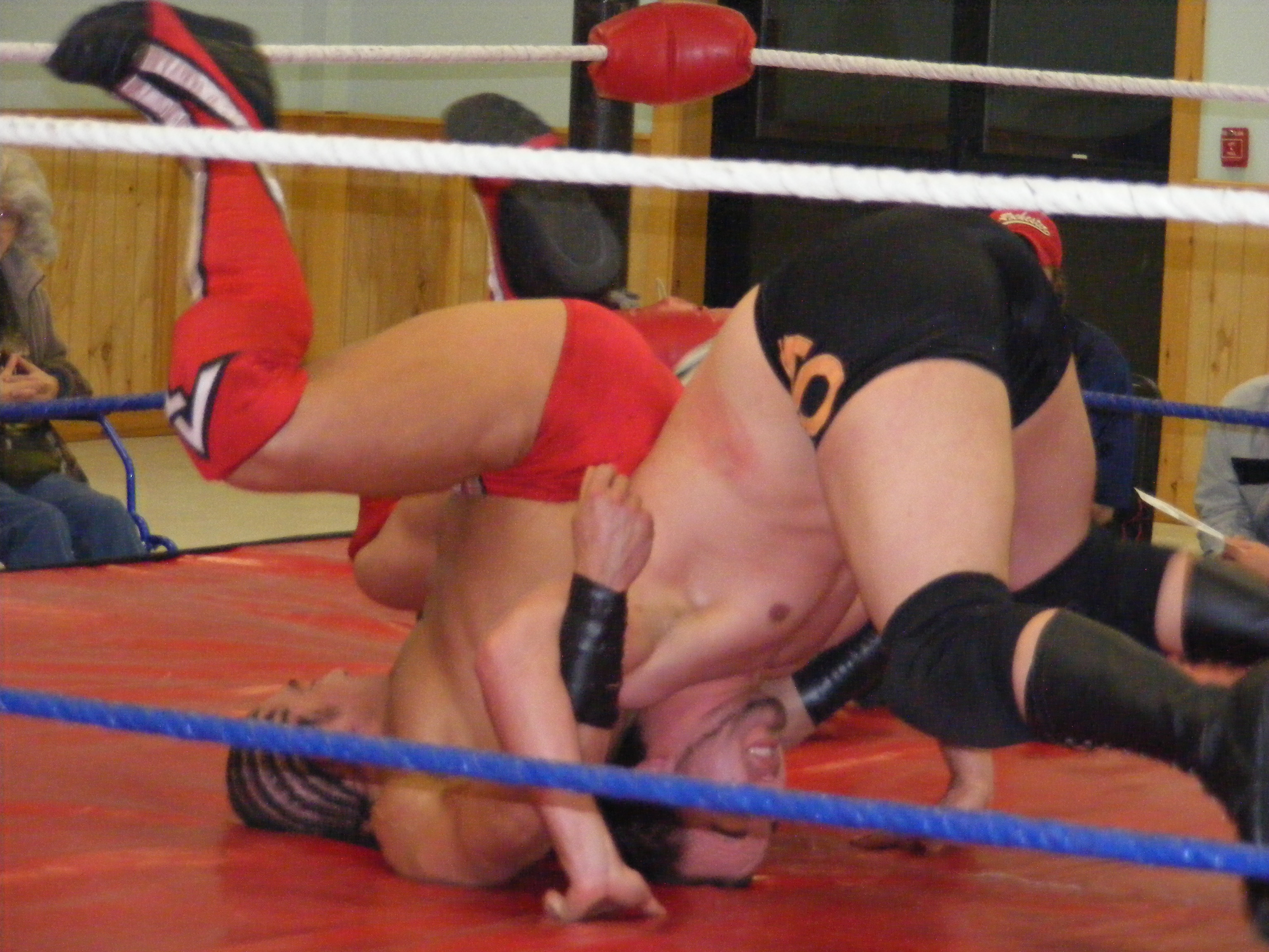 A backslide pin in professional wrestling